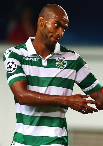 Edinaldo Gomes Pereira